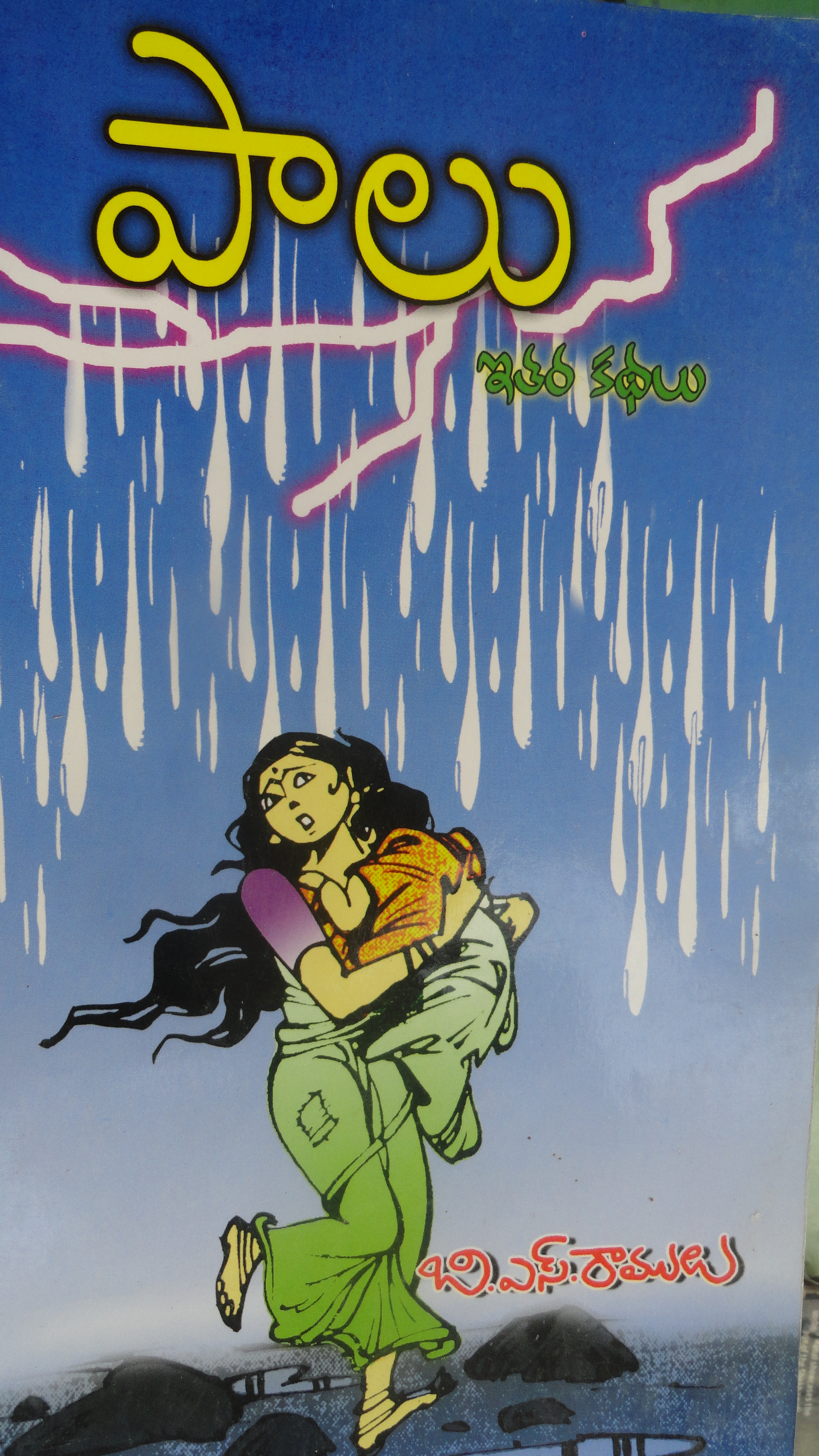 0aalu (book)